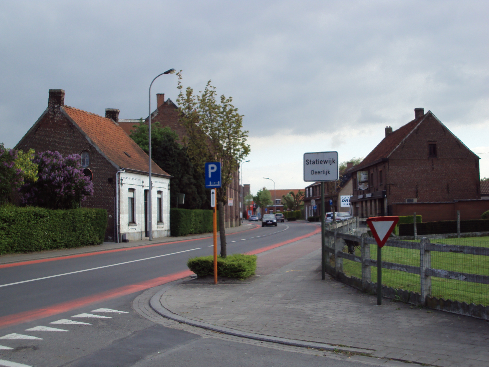 The Statiewijk, a hamlet of Deerlijk